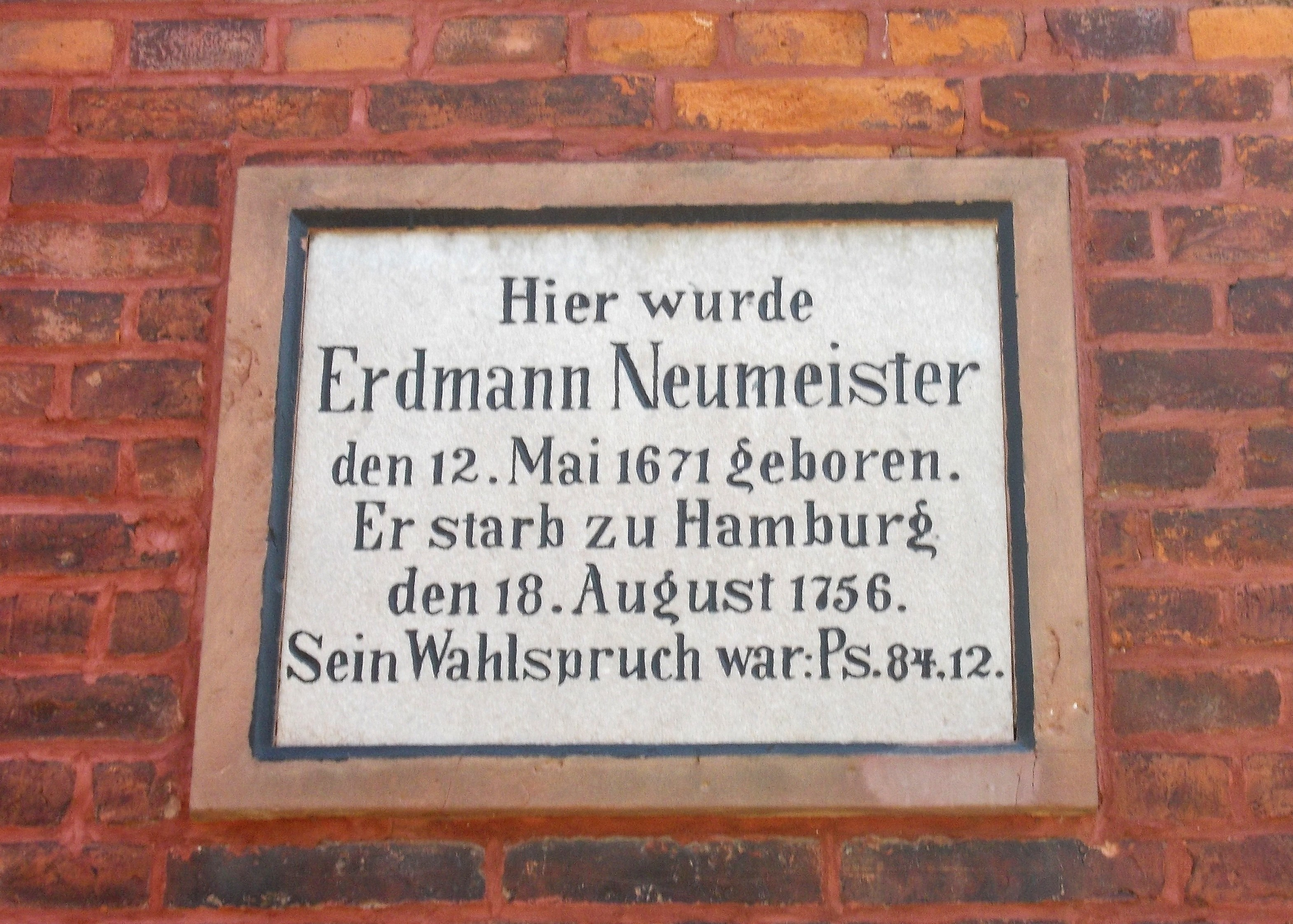 Plaque on the wall of the old school in Uichteritz (Weissenfels, district: Burgenlandkreis, Saxony-Anhalt), birthplace of Erdmann Neumeister